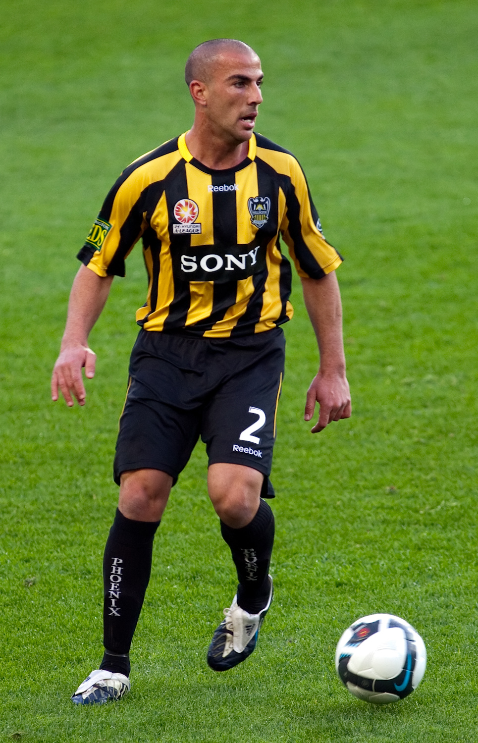 Manny Muscat playing for the Wellington Phoenix against Sydney FC in the 2009-10 A-League.